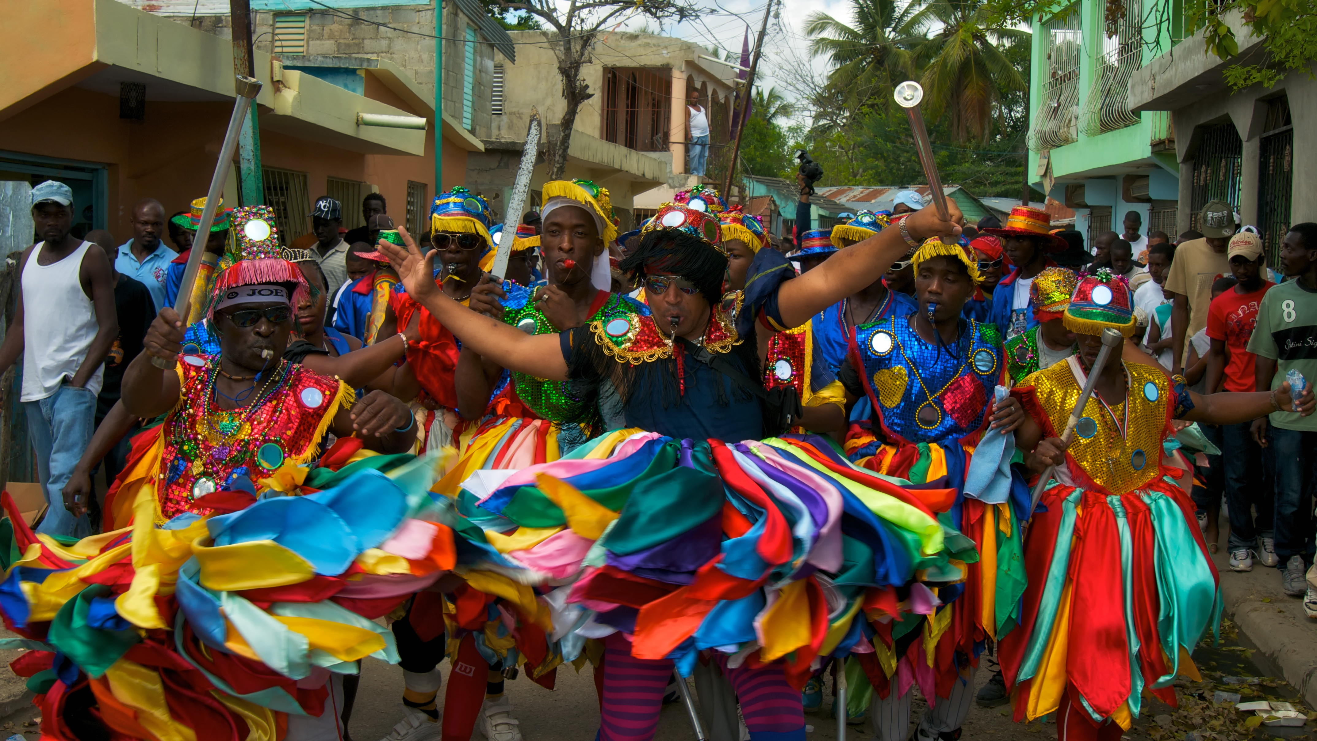 Picture of "Mayores" dancing in a Gaga in San Luis, a rural community in Dominican Republic